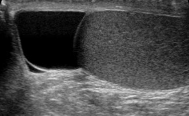 A ultrasound of a spermatocele on the left testicle. Testicle is grey, fluid filled spermatocele is black.